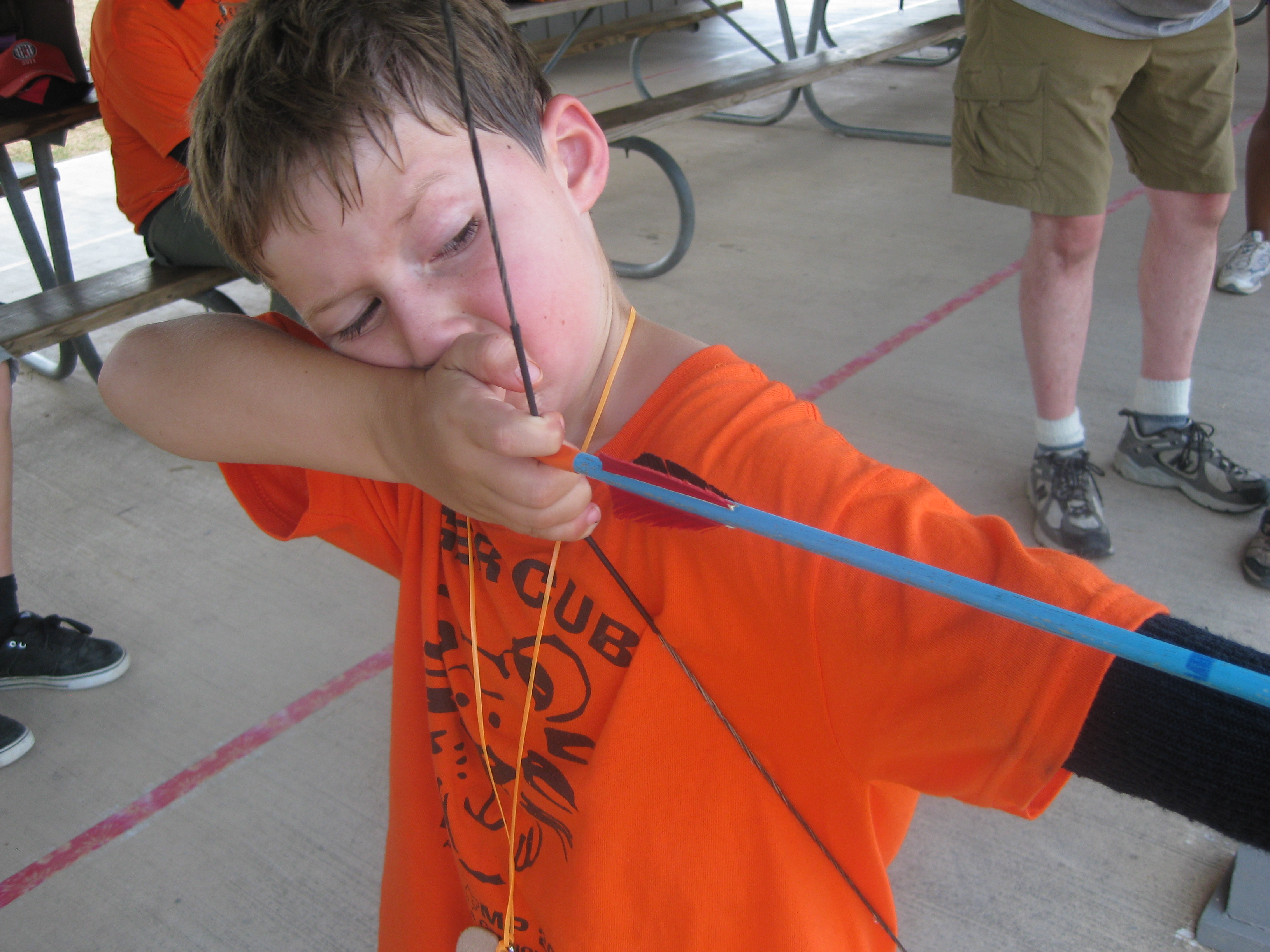 Archery - Cub Scout Day Camp - San Antonio, Texas - July 2011